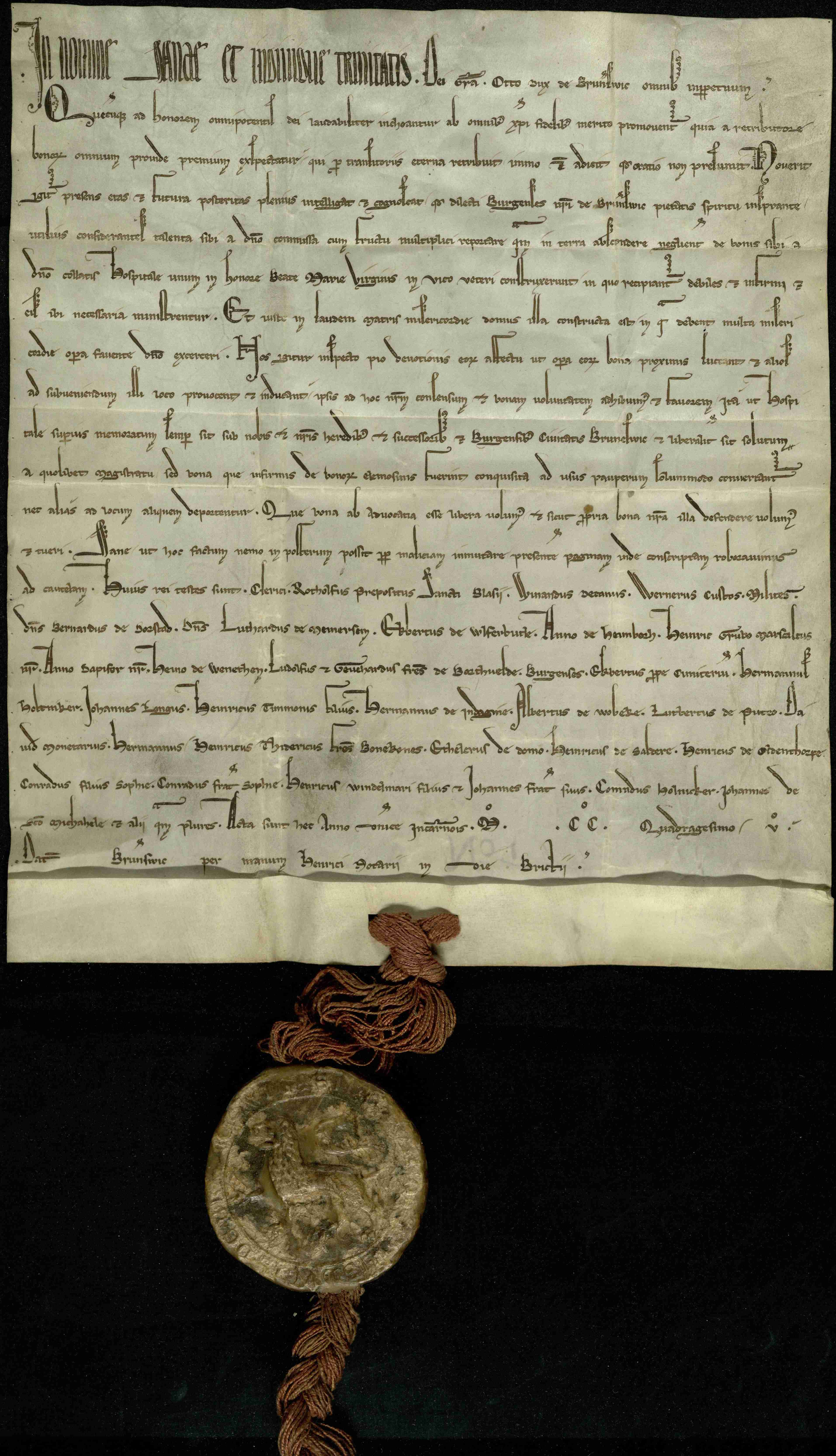 Document of foundation of Großes Waisenhaus Beatae Marie Virginis in Braunschweig, Germany. Dated 13 November 1245.